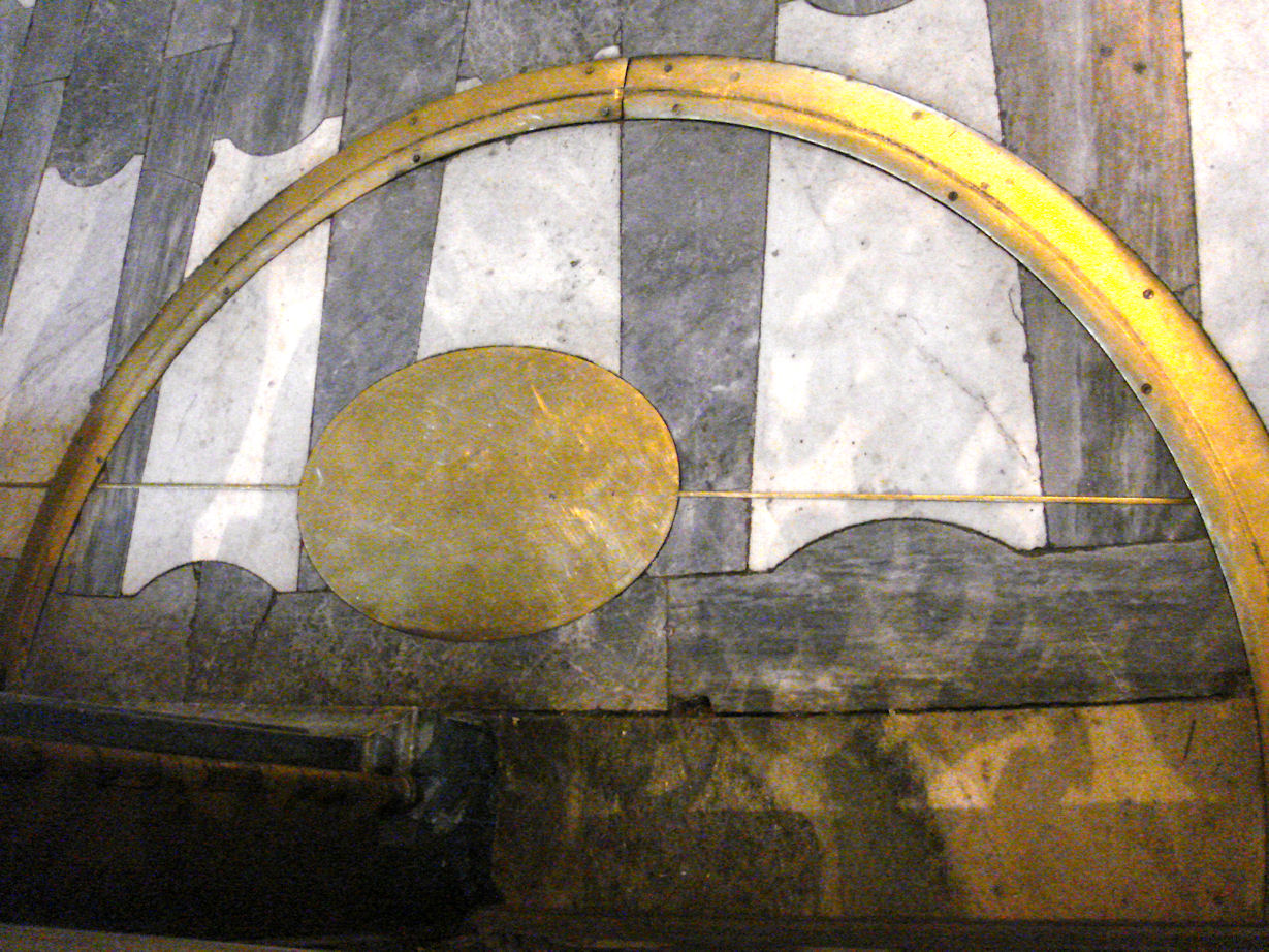 Central_gnomon_equinoxal marker at Saint-Sulpice